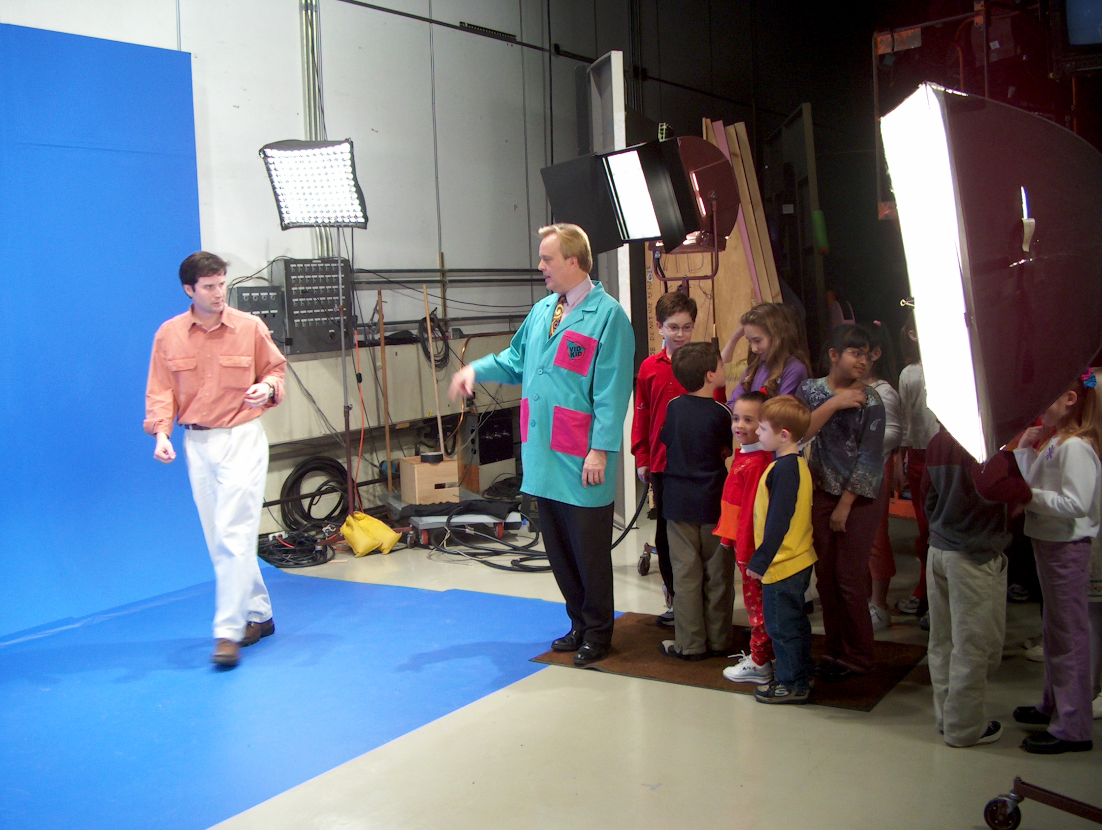 Maryland Public Television's children's show host Bob the Vid Tech (Robert Heck) discusses a blue screen shot with producer Frank Batavick for the Kids and Family music video.